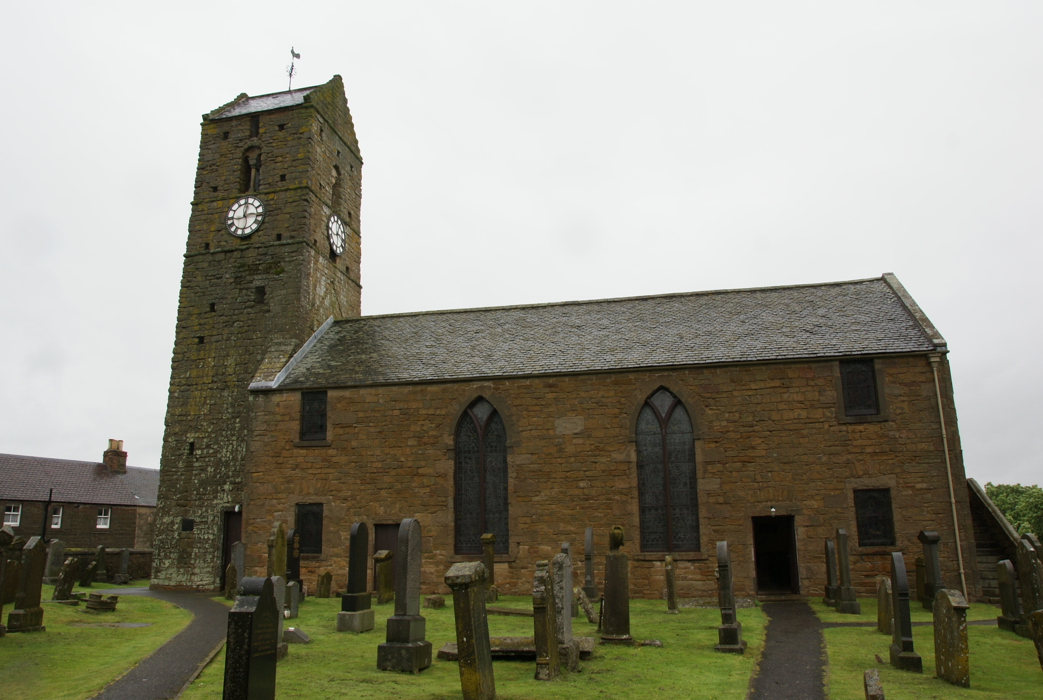 St Serf's Church, Dunning, Perth and Kinross, Scotland